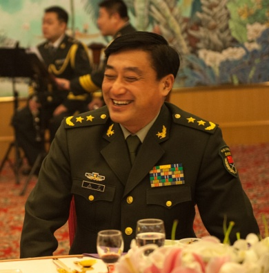 U.S. Army Chief of Staff, Gen. Ray Odierno and Deputy Chief of Staff of the General Staff, Lt. Gen. Wang Ning laugh during a dinner ceremony at the Ministry of National Defense in Beijing, China, Feb. 21, 2014. Odierno, was meeting with Chinese commanders to strengthen and promote military to military relations between the United States and China. (U.S. Army Photo by Sgt. Mikki L. Sprenkle/Released)